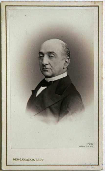 Count I.D. Delyanov